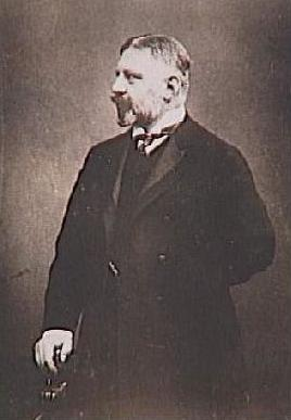 Dr. Friedrich Rosen (1856 - 1935), German orientalist and diplomat. Minster Plenipotentiary of Germany in the Netherlands from 1916 till 1921.